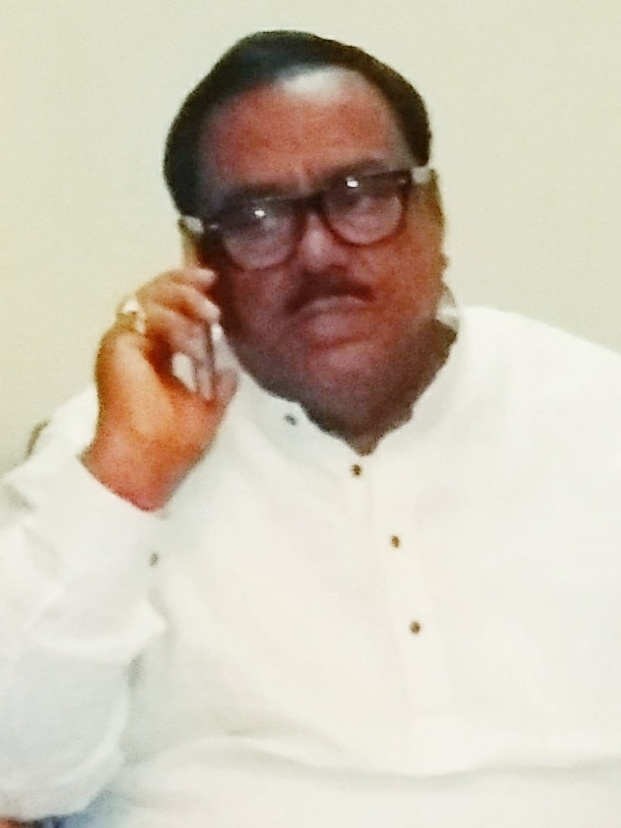 Sadhan Chandra Majumder, Minister of food